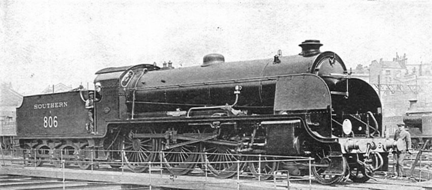 "King Arthur" type Locomotive, "Sir Galeron", Southern Rly. Fitted with Wind Deflectors for lifting Exhaust clear of the Cab